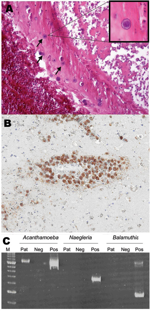 A) Cysts in a vessel wall (arrows) of the patient (hematoxylin and eosin stain, magnification ×250). Inset shows a cyst at higher magnification (hematoxylin and eosin stain, magnification ×800). B) Immunohistochemical staining with antibody to Acanthamoeba cysts within vessel walls (magnification ×250). C) Polyacrylamide gel electrophoresis of PCR products for Acanthamoeba spp., Naegleria spp., and Balamuthia mandrillaris using JDP primers for a diagnostic small subunit rDNA fragment. M, molecular mass marker; Pat, patient; Neg, negative control; Pos, positive control. Source:Meersseman W, Lagrou K, Sciot R, de Jonckheere J, Haberler C, Walochnik J, Peetermans W, van Wijngaerden E. "Rapidly Fatal Acanthamoeba Encephalitis and Treatment of Cryoglobulinemia". Emerg Infect Dis [serial on the Internet]. 2007 March [cited 2007 Feb 23]. Available from Public Domain rationale